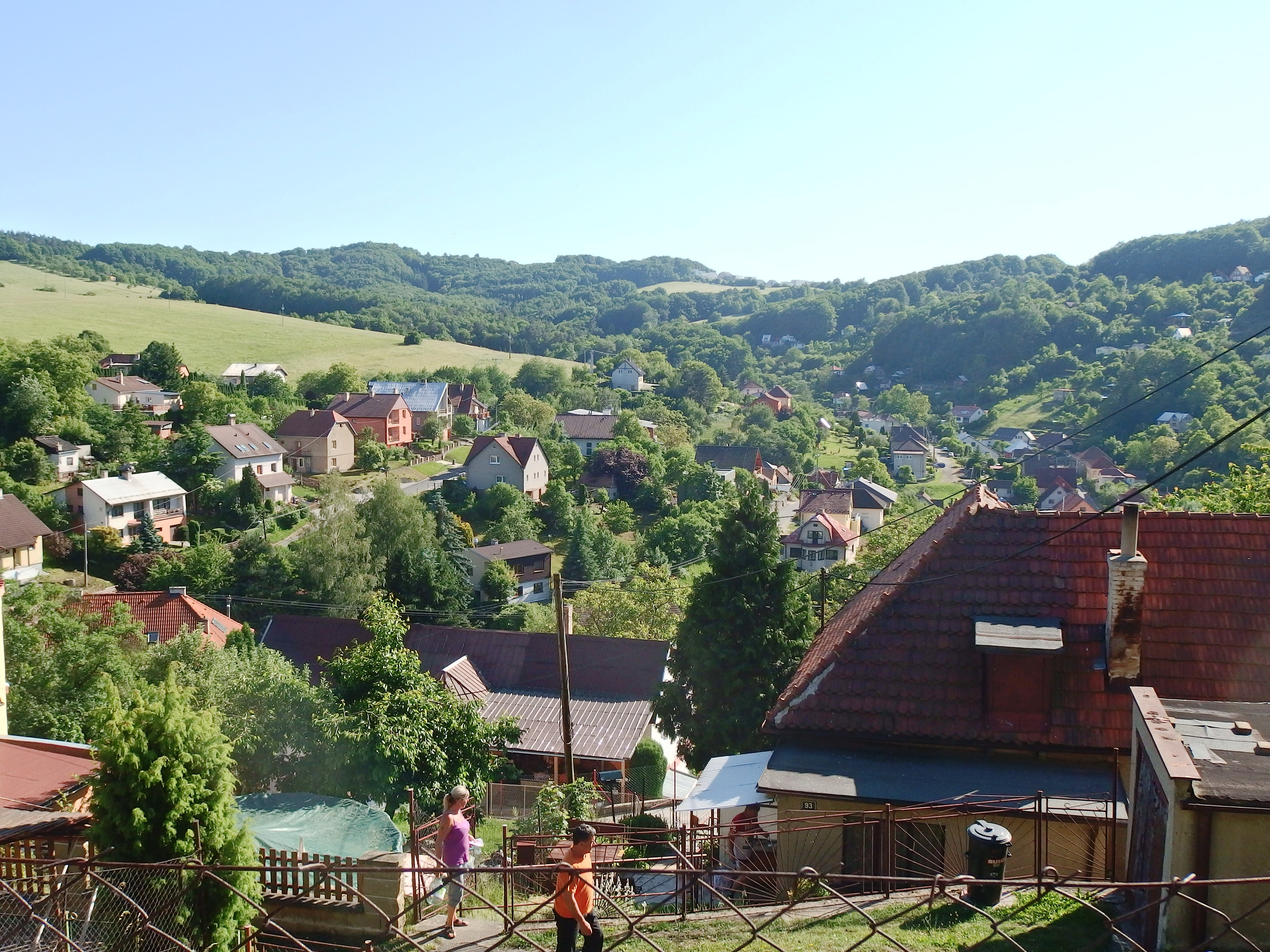 Zlín, Czech Republic, part Jaroslavice.